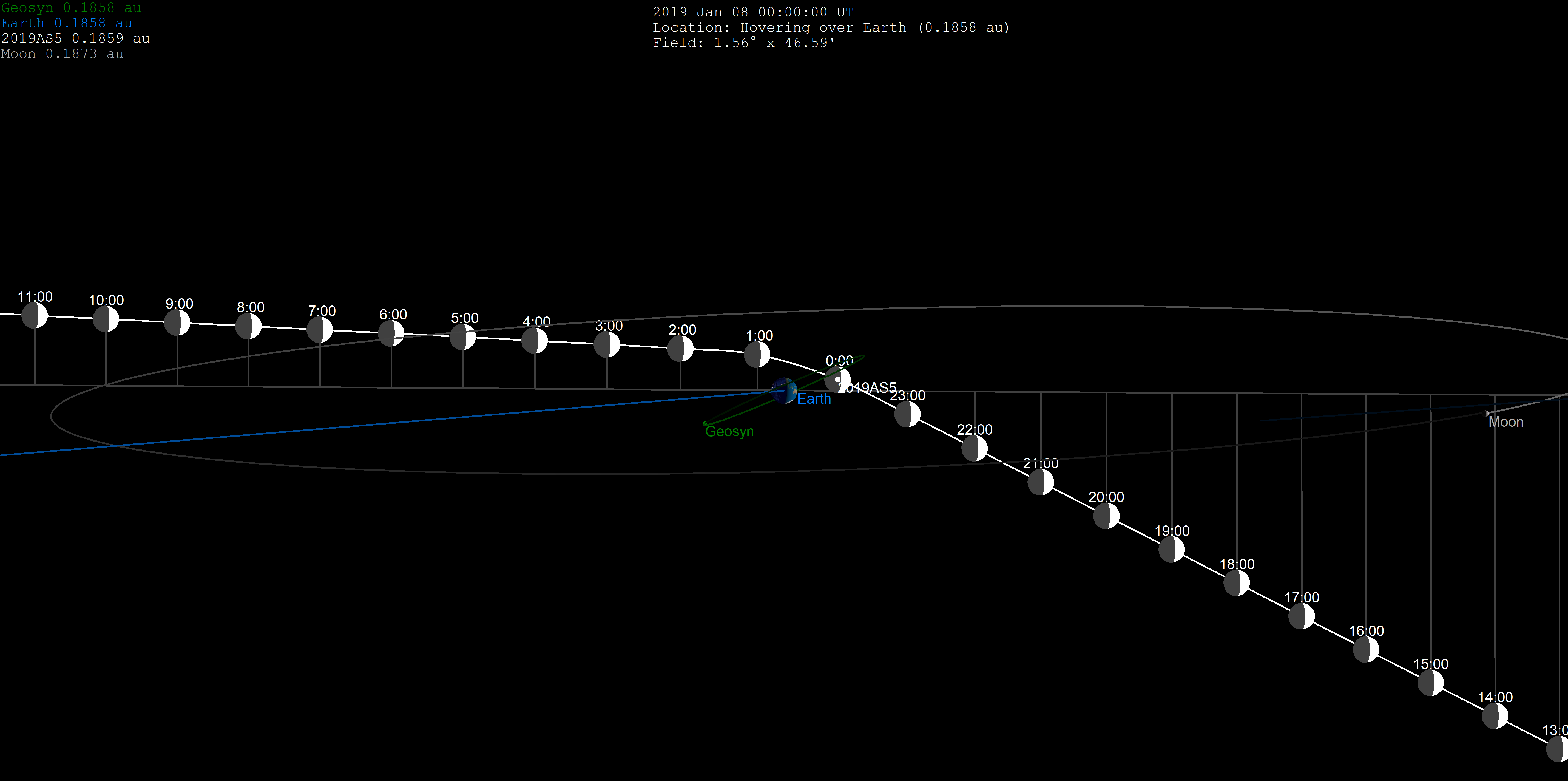 en:2019_AS5 flyby on Jan 8, 2019